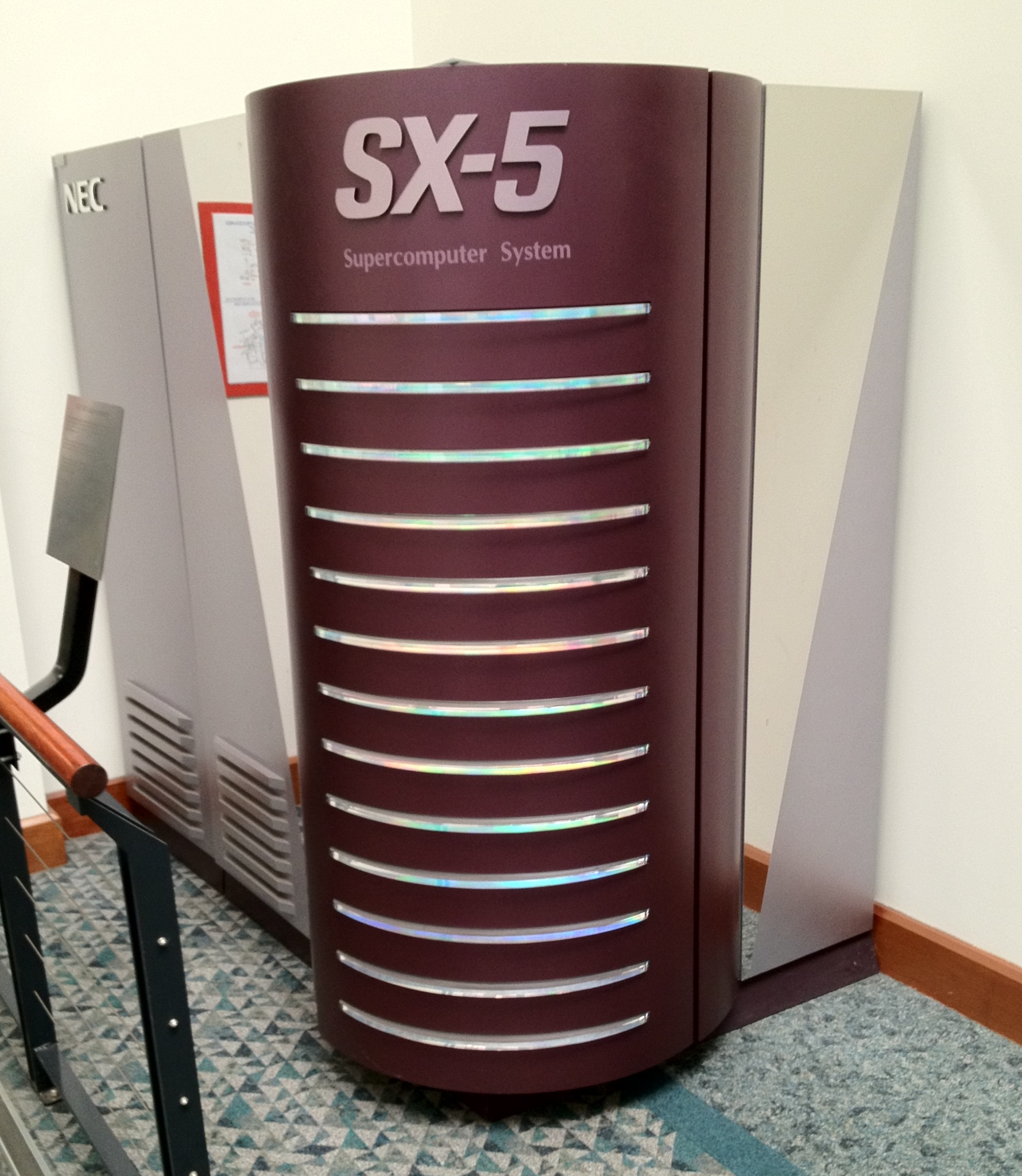 Part of a NEC SX-5 supercomputer, on display at the Australian Technology Park (ATP), Eveleigh, Sydney. This computer was previously operated by ac3 (The Australian Centre for Advanced Computing and Communications), which is also located at ATP.